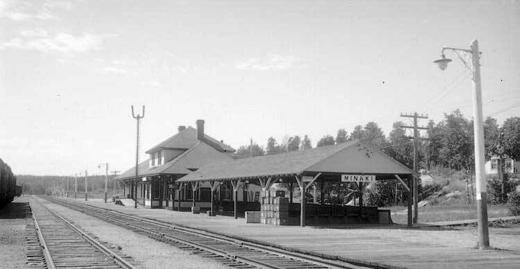 The station as it was in 1938 courtesy of the CN Images Canada Collection.